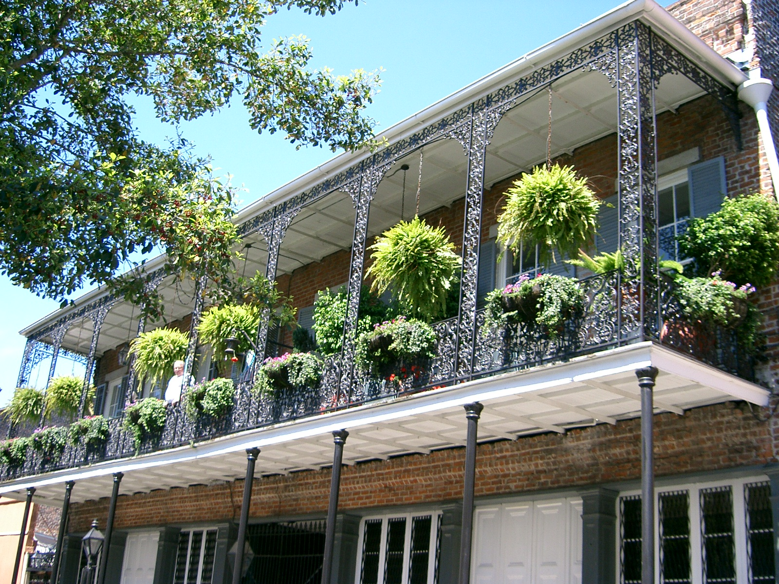 New Orleans (Louisiana)- French Quarter - balcon self made PRA